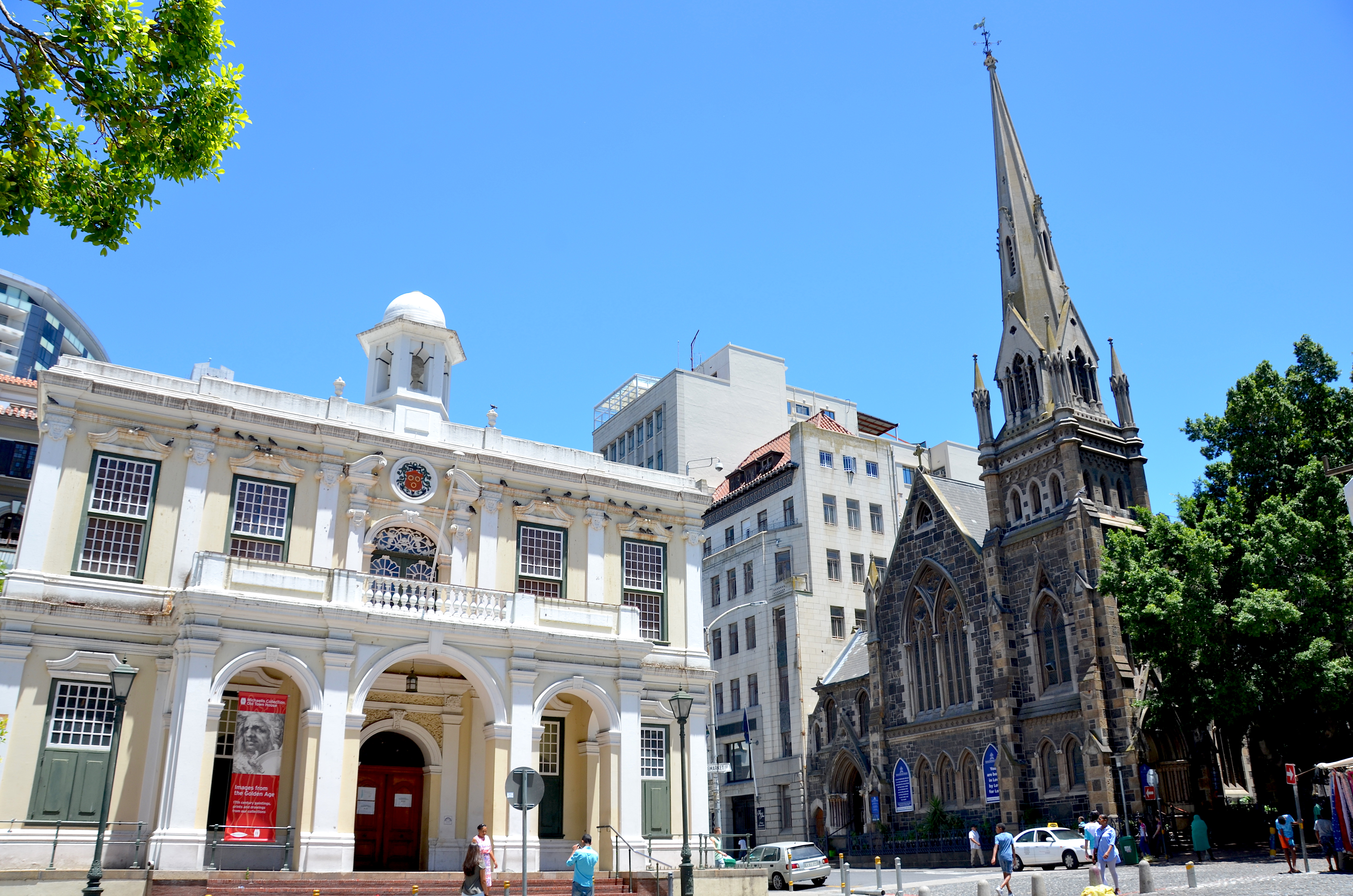 Iziko Old Town House Museum and Central Methodist Church in Cape Town (2017)